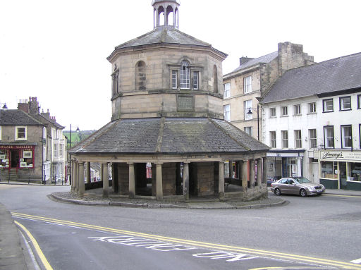 Barnard Castle. This is the "Butter Cross", where farmers wives would once have brought their butter to sell on market day.